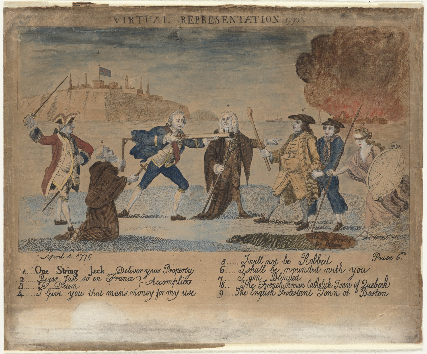 File name: 11_03_000001 Box label: American related cartoons, 5284 - 5476 Title: Virtual representation, 1775 Translated title: Creator/Contributor: Date issued: 1775-04-01 Physical description: 1 print : engraving, color ; 10 x 12 in. Summary: Bute aims a blunderbuss at an American gentleman with a club while Britannia falls into "the Pit Prepared for Others." In the background, Roman Catholic Quebec sits serenely on the hill while "the English Protestant Town of Boston" is in flames. Genre: Political cartoons; Engravings Subjects: Bute, John Stuart, Earl of, 1713-1792; Britannia (Symbolic character); United States--History--Revolution, 1775-1783; Politics & government; Punishment & torture; Firearms Notes: References: Catalogue of prints and drawings in the British Museum, no. 5286 (BM 5286); References: American Revolution in Drawings and Prints, no. 683 (ARDP 683) Statement of responsibility: Collection: Americana Collection Location: Boston Public Library, Print Department Rights: No known restrictions